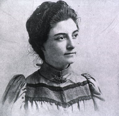 Picture of Anita Newcomb McGee, an American physician with the military.